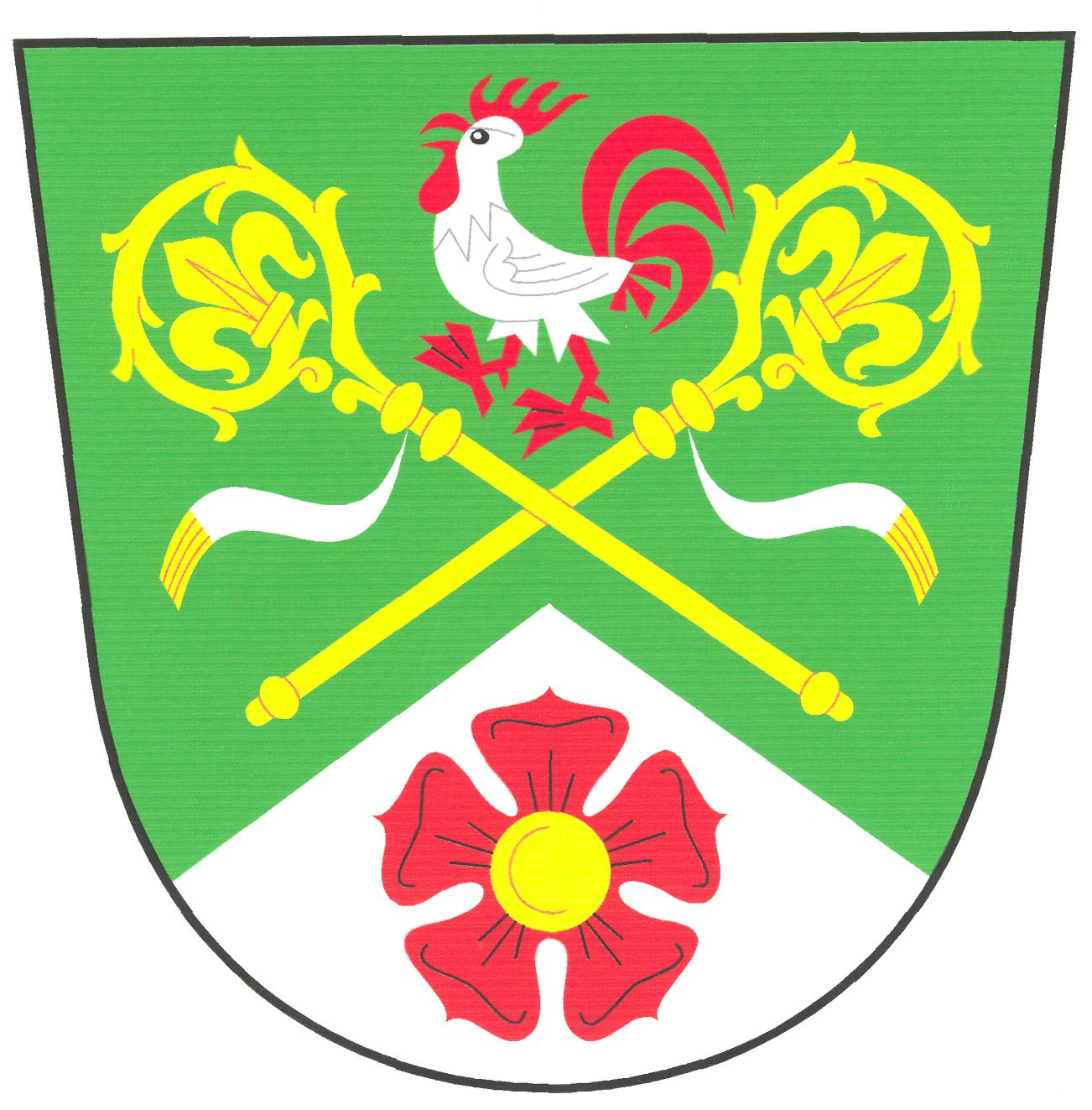 Municipal coat of arms of Světlík village, Český Krumlov District, Czech Republic.